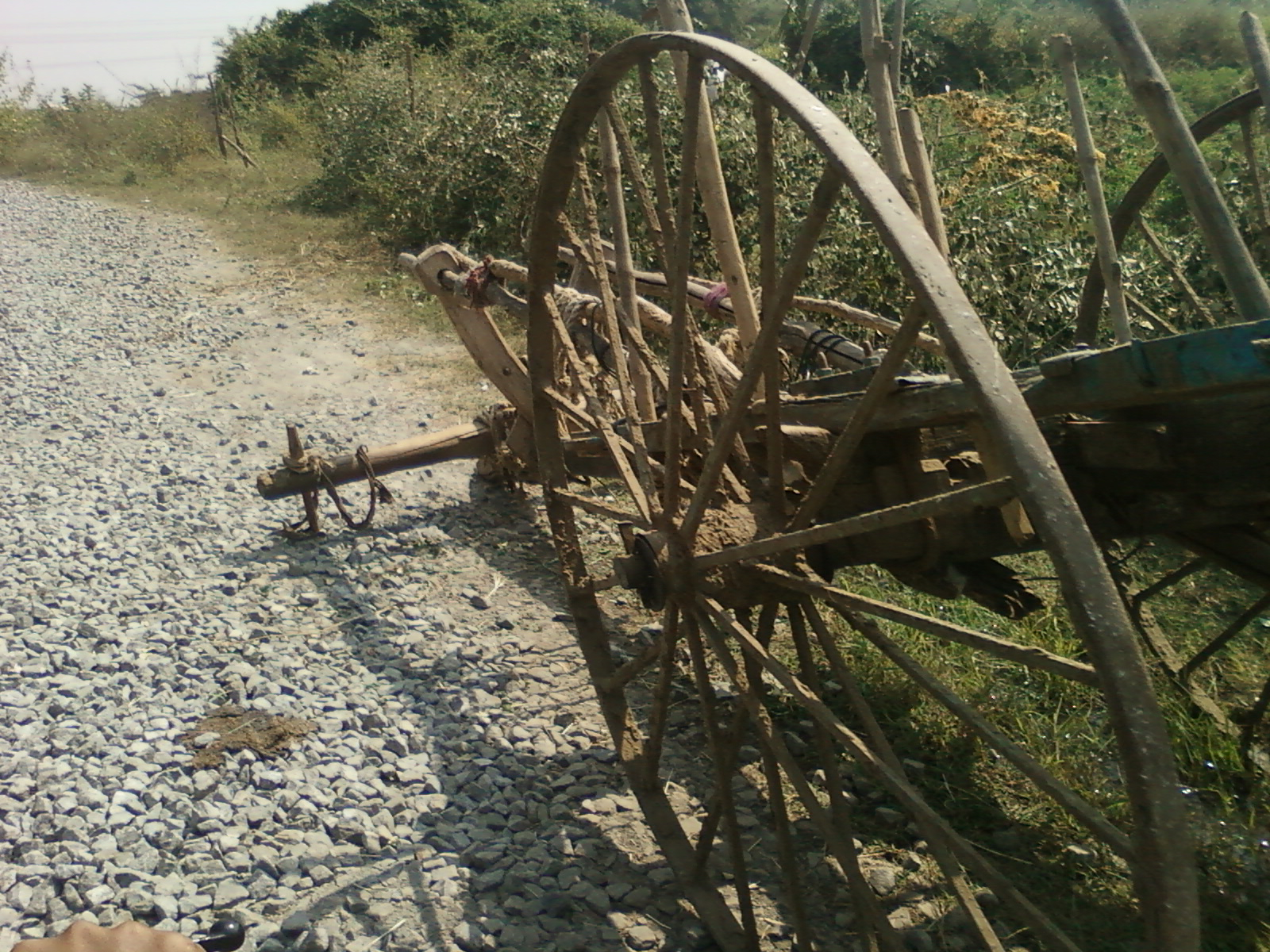 A cart near Iravendi village, Khammam district, India